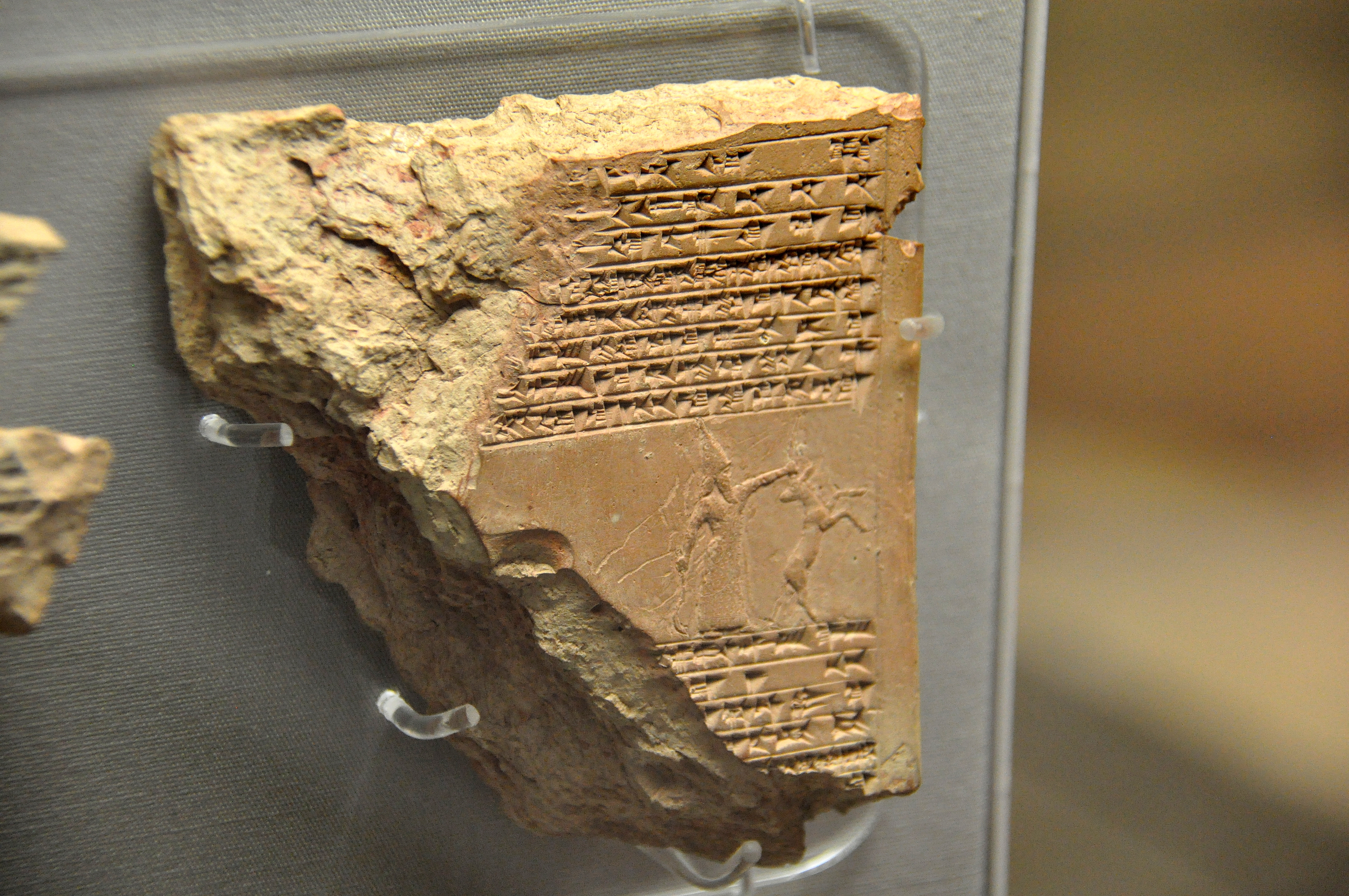 Confirmation by Shamash-shum-ukim of a grant originally made by Ashur-nadin-shumi. The clay tablet depicts the Babylonian king fighting an oryx antelope. There is a royal seal; this seal is not an original one but a hand-modeled copy. 670-650 BCE, from Babylonia, modern-day Iraq. The tablet is currently held in the British Museum, London.